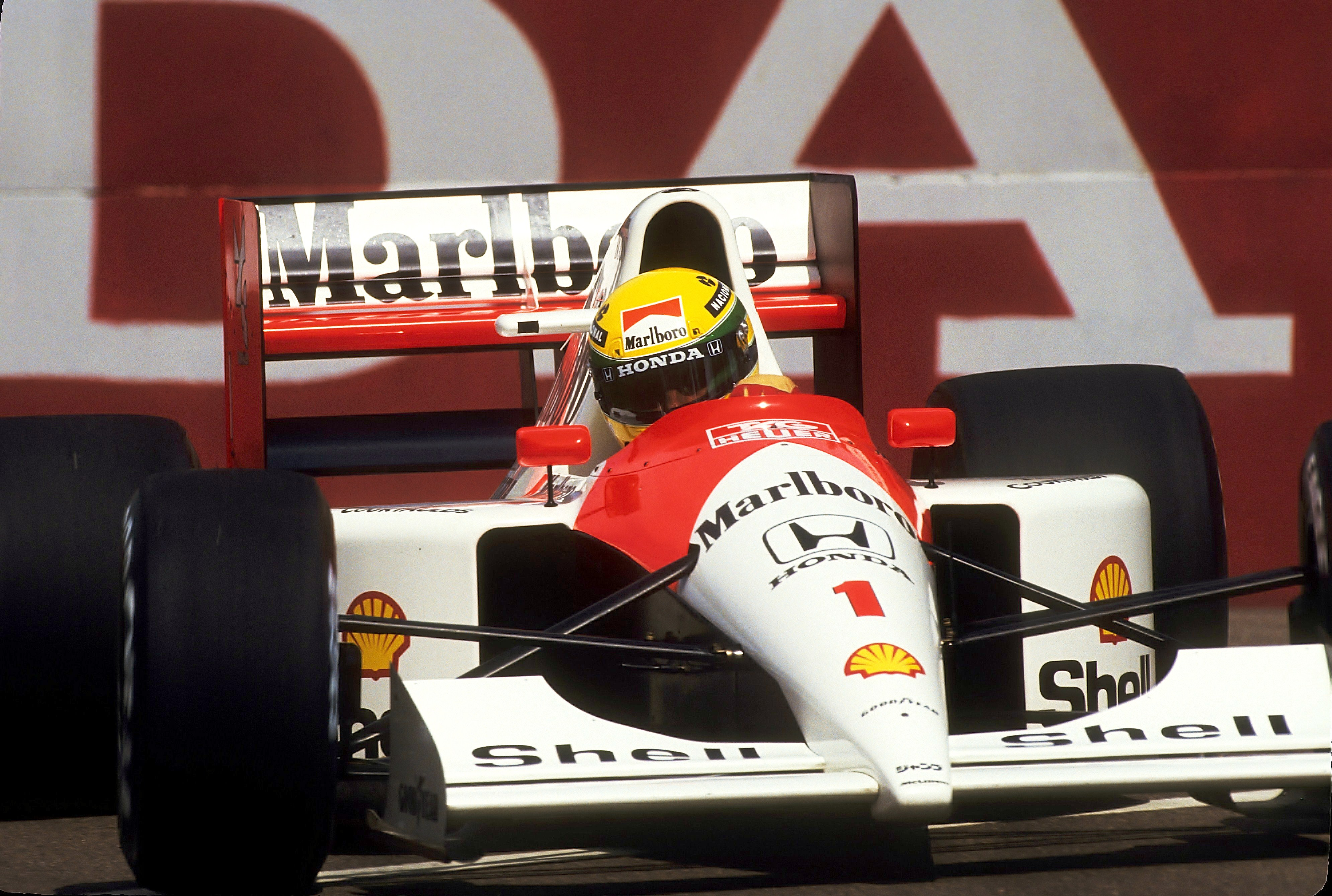 Ayrton Senna (McLaren) at the 1991 United States Grand Prix, Phoenix